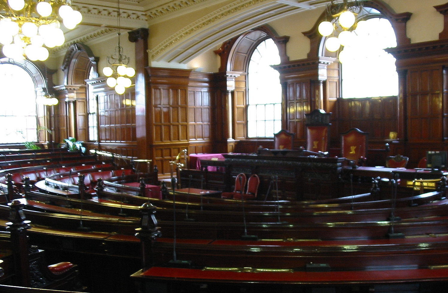 Nrf: Liverpool